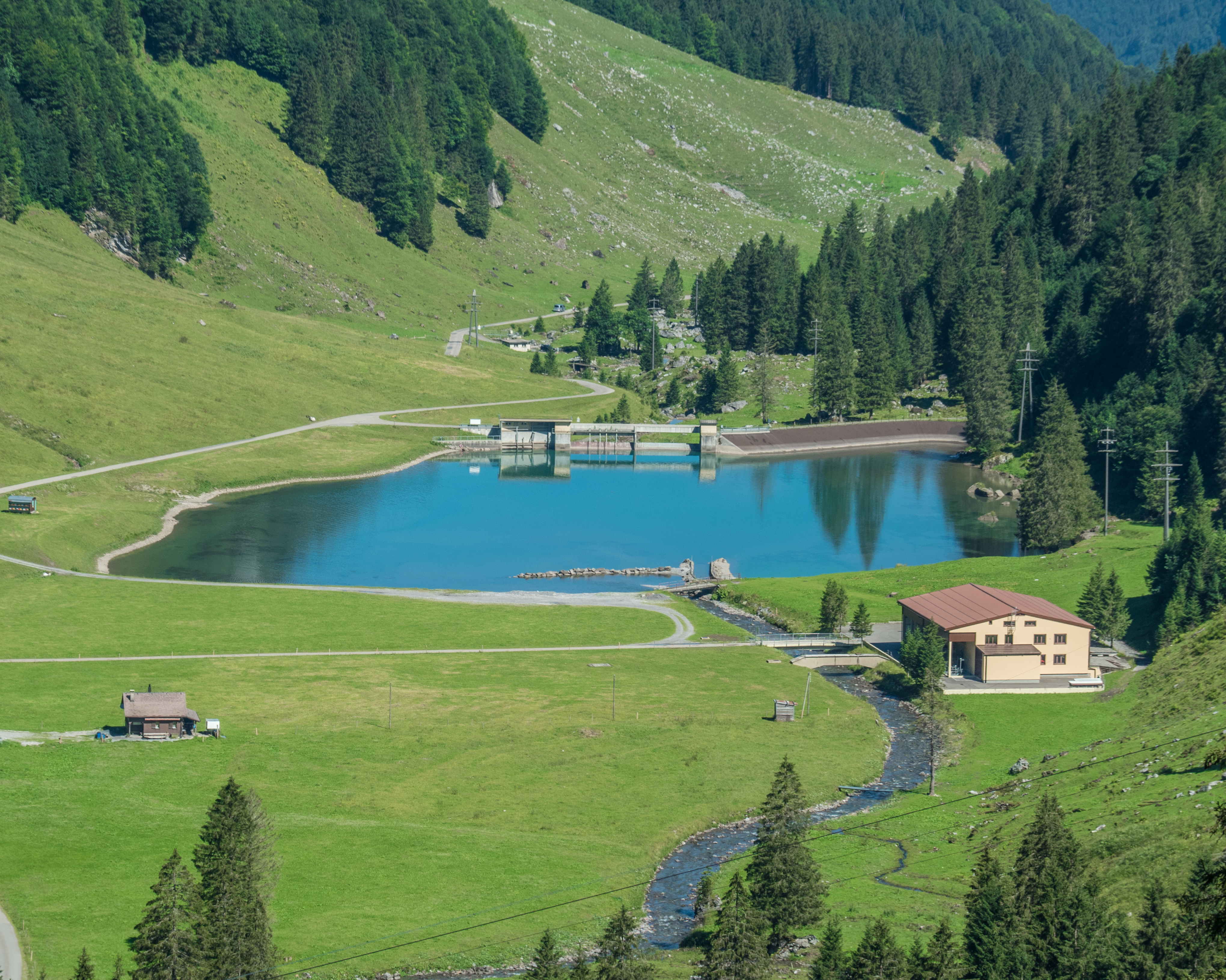 EBS Sahliboden Compensating Reservoir on the Muota River, Bisisthal, Canton of Schwyz, Switzerland